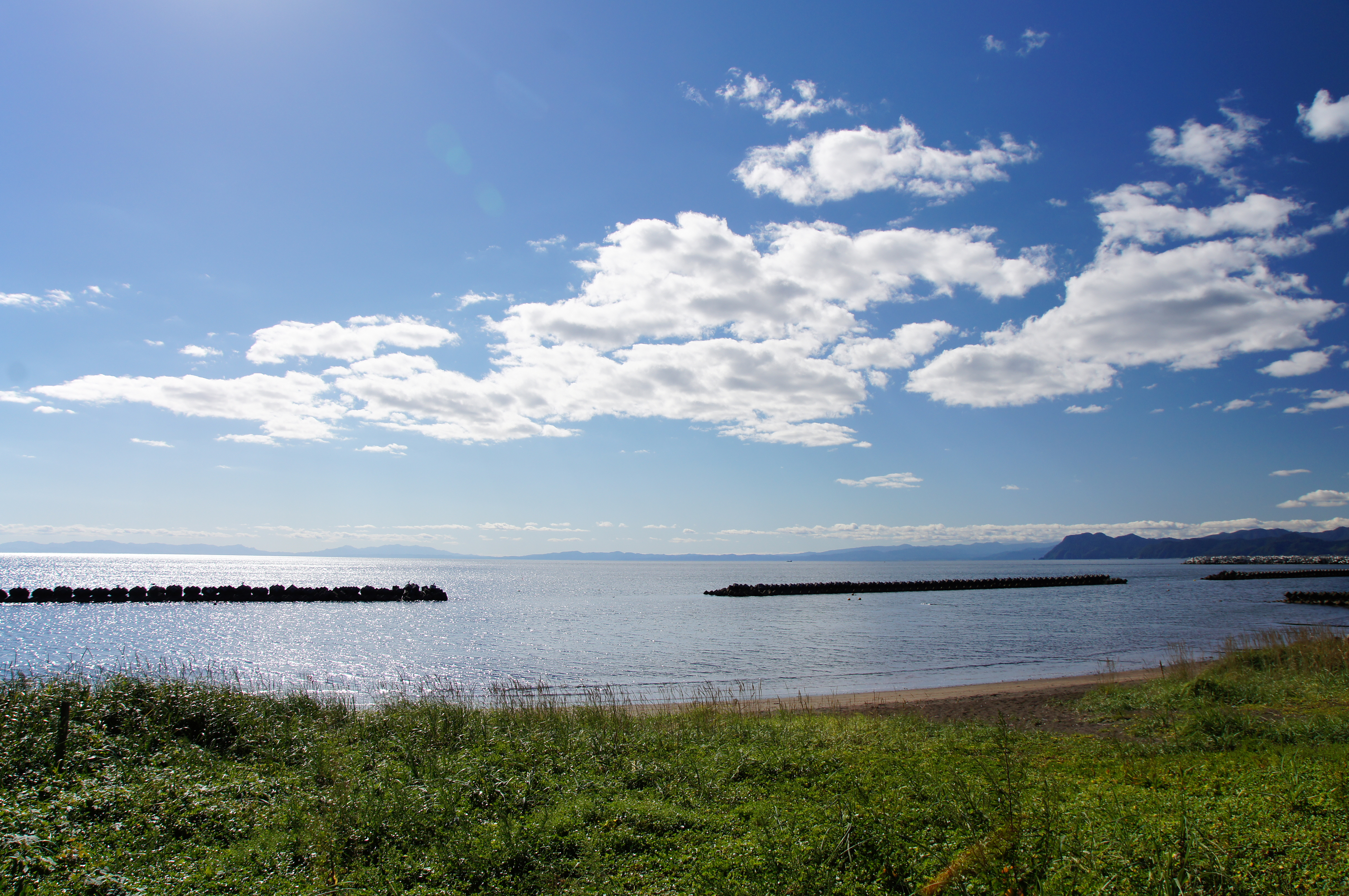 At Abuta, Toyako, Hokkaido prefecture, Japan.